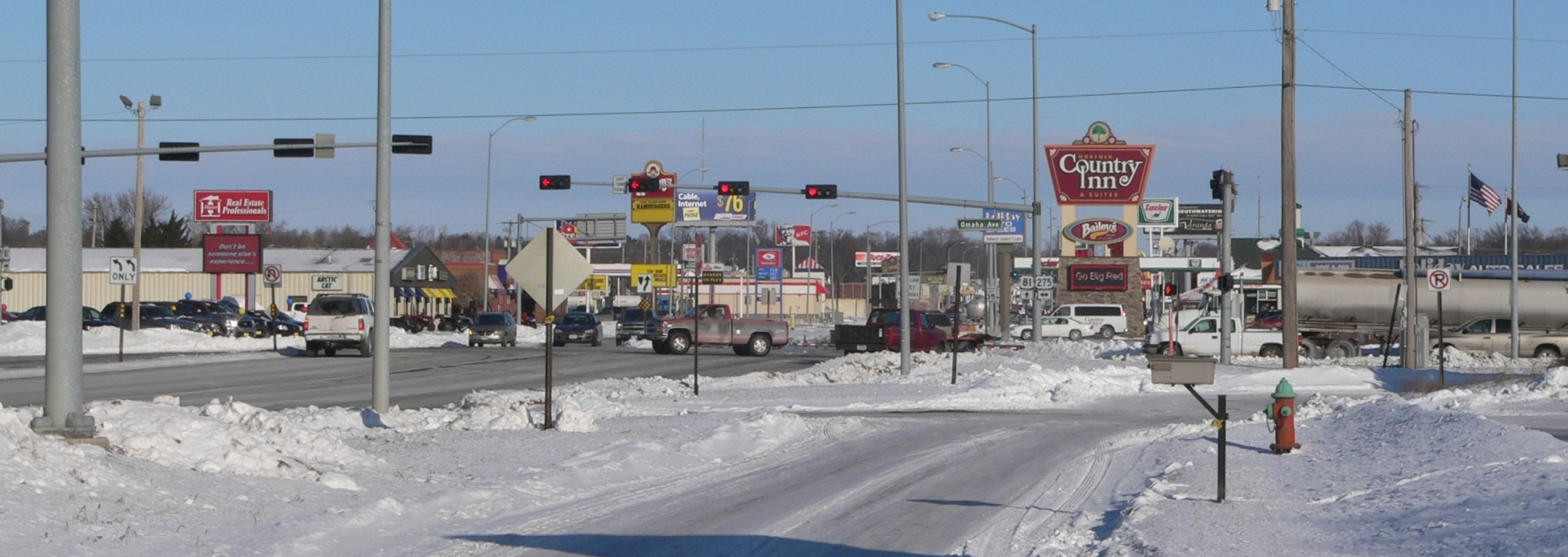 Intersection of 13th St (U.S. Highway 81) and Omaha Avenue (U.S. Highway 275) in Norfolk, Nebraska; seen from the south.